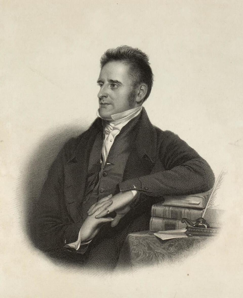 A portrait from the Welsh Portrait Collection at the National Library of Wales. Depicted person: John Kelly – Scottish minister, born 1801